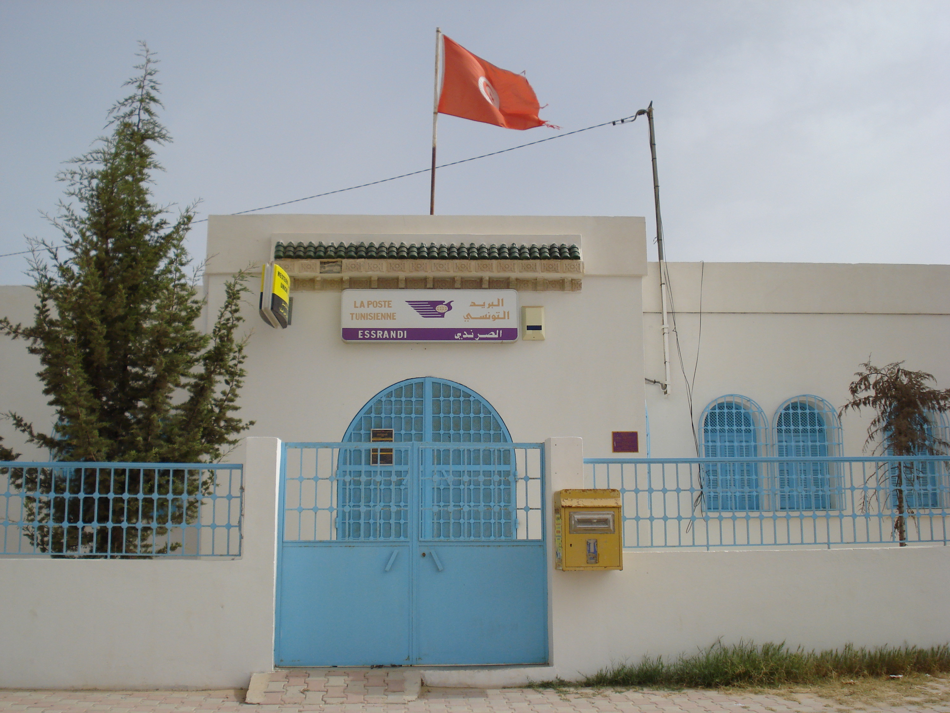 Essrandi, Djerba, Tunisia.